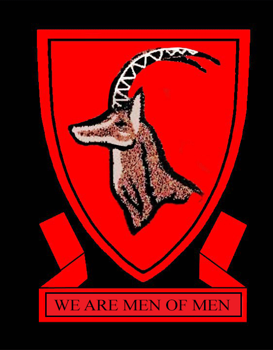 Allan Wilson High School Harare, School Badge depicting a Sable